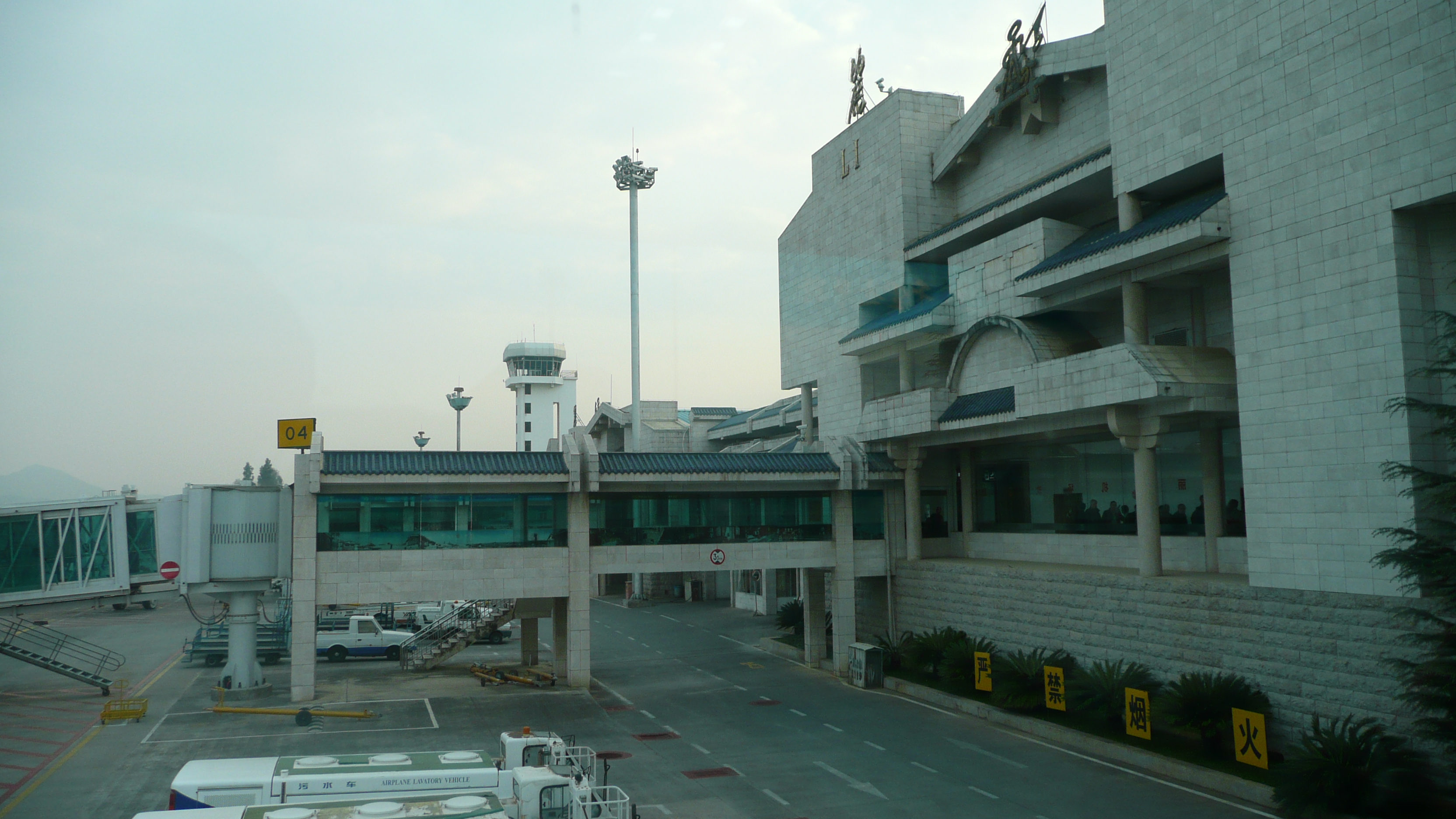 Airport Lijiang (Yunnan)